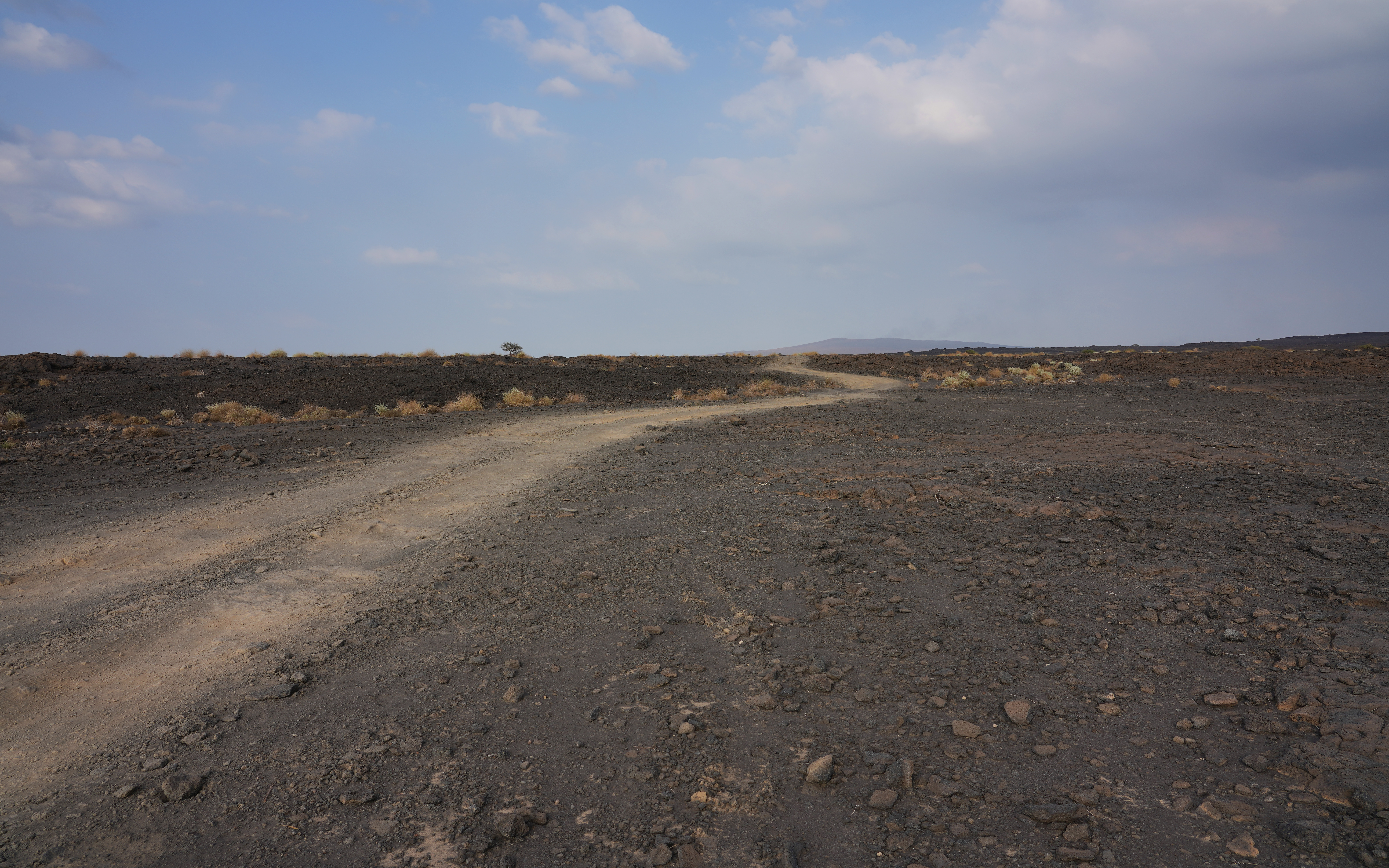 Landscape between Lake Afdera and Erta Ale volcano, Afar Region, Ethiopia